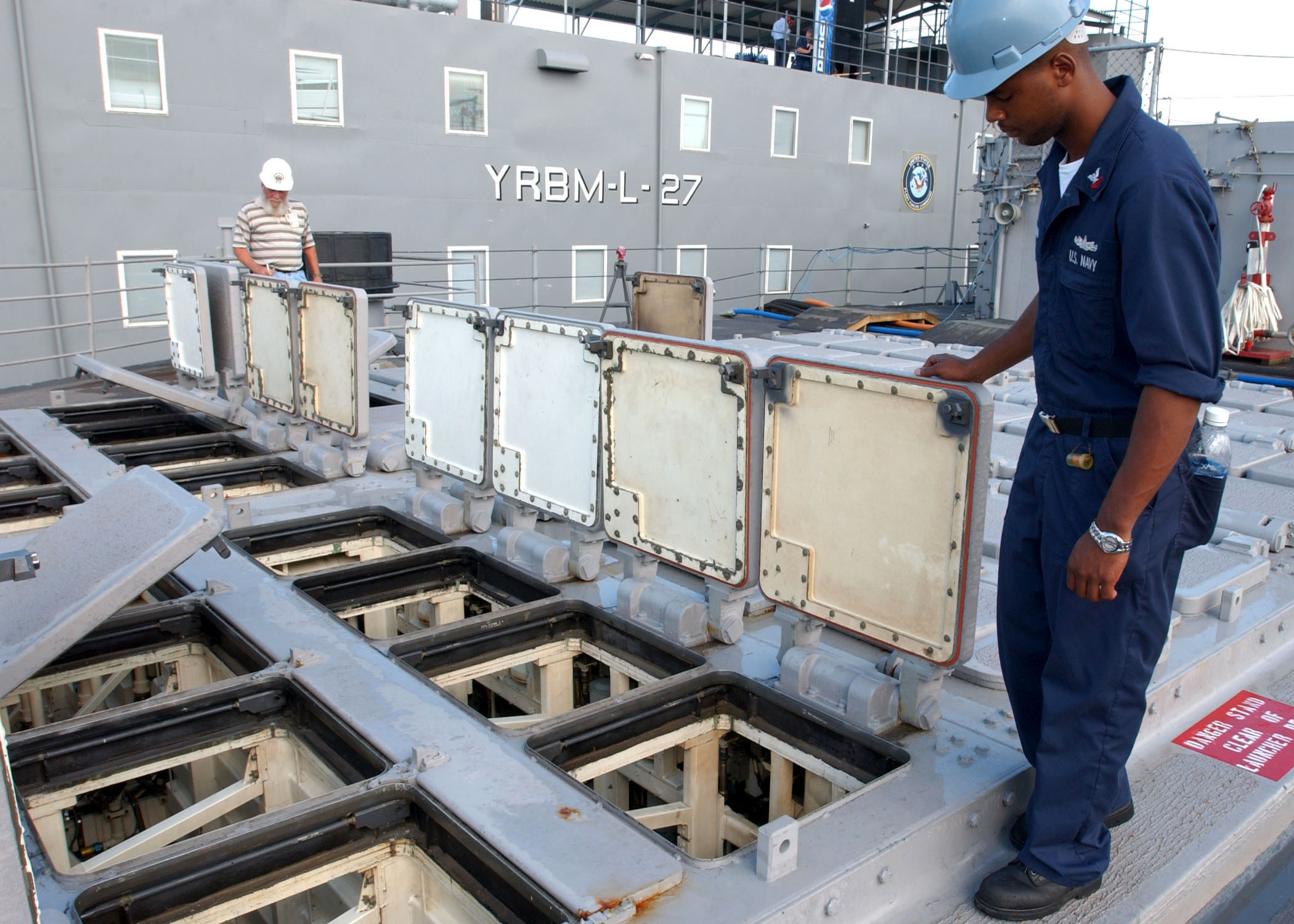 Mayport, Fla. (July 14, 2005) - Gunner's Mate 2nd Class Charles Coleman inspects missile cell hatches on one of two Vertical Launching Systems (VLS) aboard the guided missile cruiser USS Hue City (CG 66). The VLS is capable of launching numerous missiles including the Tomahawk Land Attack Missile and SM-2 Standard Missile. Hue City is currently in a yard period on board Naval Station Mayport, Fla. U.S. Navy photo by Photographer's Mate 2nd Class Charles E. Hill (RELEASED)